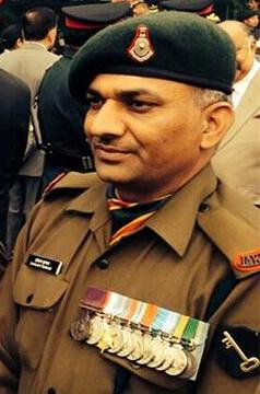 Sanjay Kumar, Param Vir Chakra Recipient